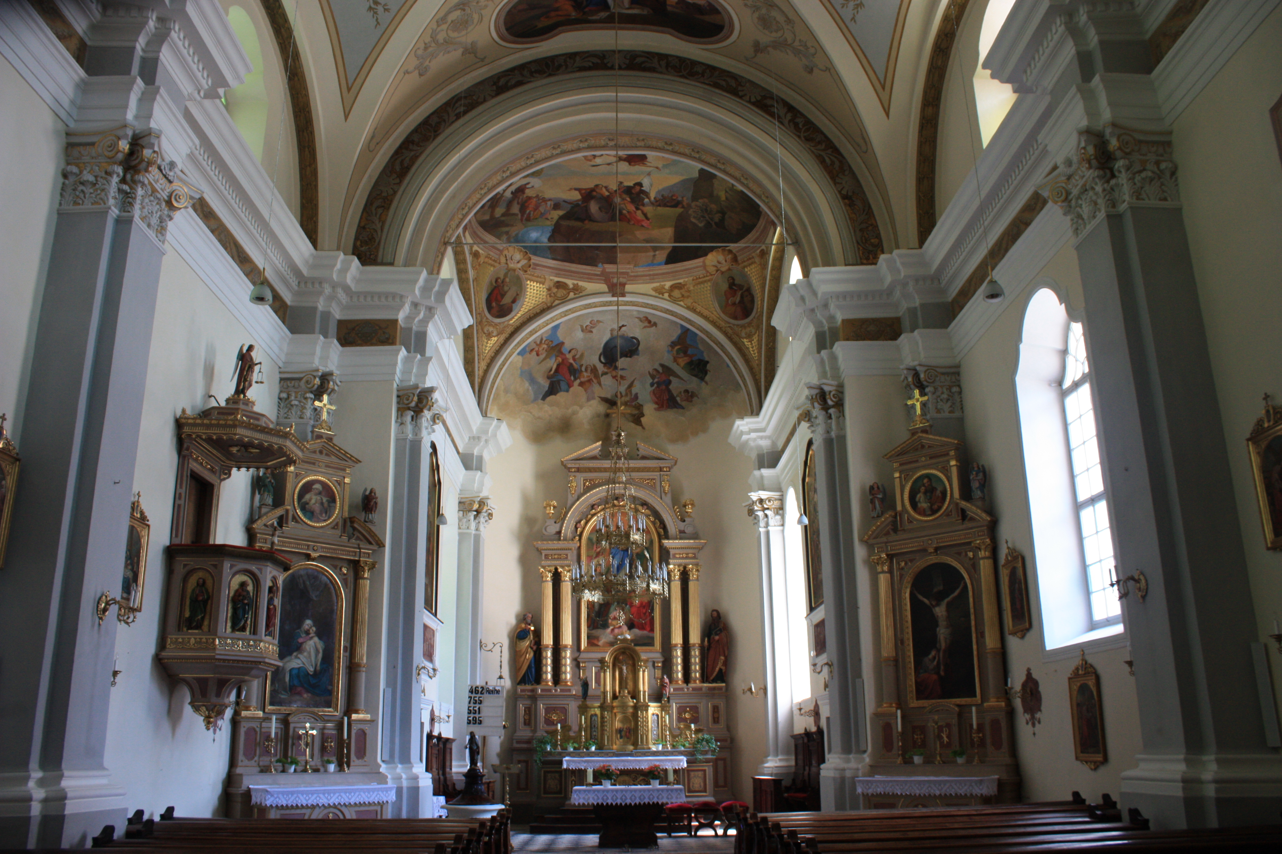 Parish church Saint Oswald: Interior Locality:Oberdrauburg Community:Oberdrauburg